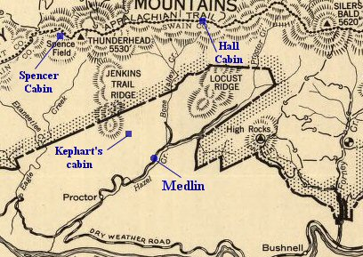 Map of the Hazel Creek valley in the Great Smoky Mountains of the U.S. state of North Carolina, showing various locations mentioned by author Horace Kephart in his 1913 book, Our Southern Highlanders. This map has been modified (mainly the addition of the locations in blue) from a detailed portion of a National Park Service map drawn in 1940, before the creation of Fontana Lake and while much of the valley was still in private hands. The locations in blue existed when Kephart was active in the area (1904-1907), but not necessarily in 1940. The Appalachian Trail, built with Kephart's suggestions, roughly follows the Tennessee-North Carolina border. Approximate coordinates for these locations: Spencer cabin (N35.56357°, W83.73063°) Hall cabin (N35.56624°, W83.64190°) Siler's Meadow (N35.56401°, W83.56682°) Medlin (N35.49465°, W83.68889°) Kephart's cabin (N35.50813°, W83.70958°) Proctor (N35.47382°, W83.72161°) Bushnell (N35.43715°, W83.58521°)